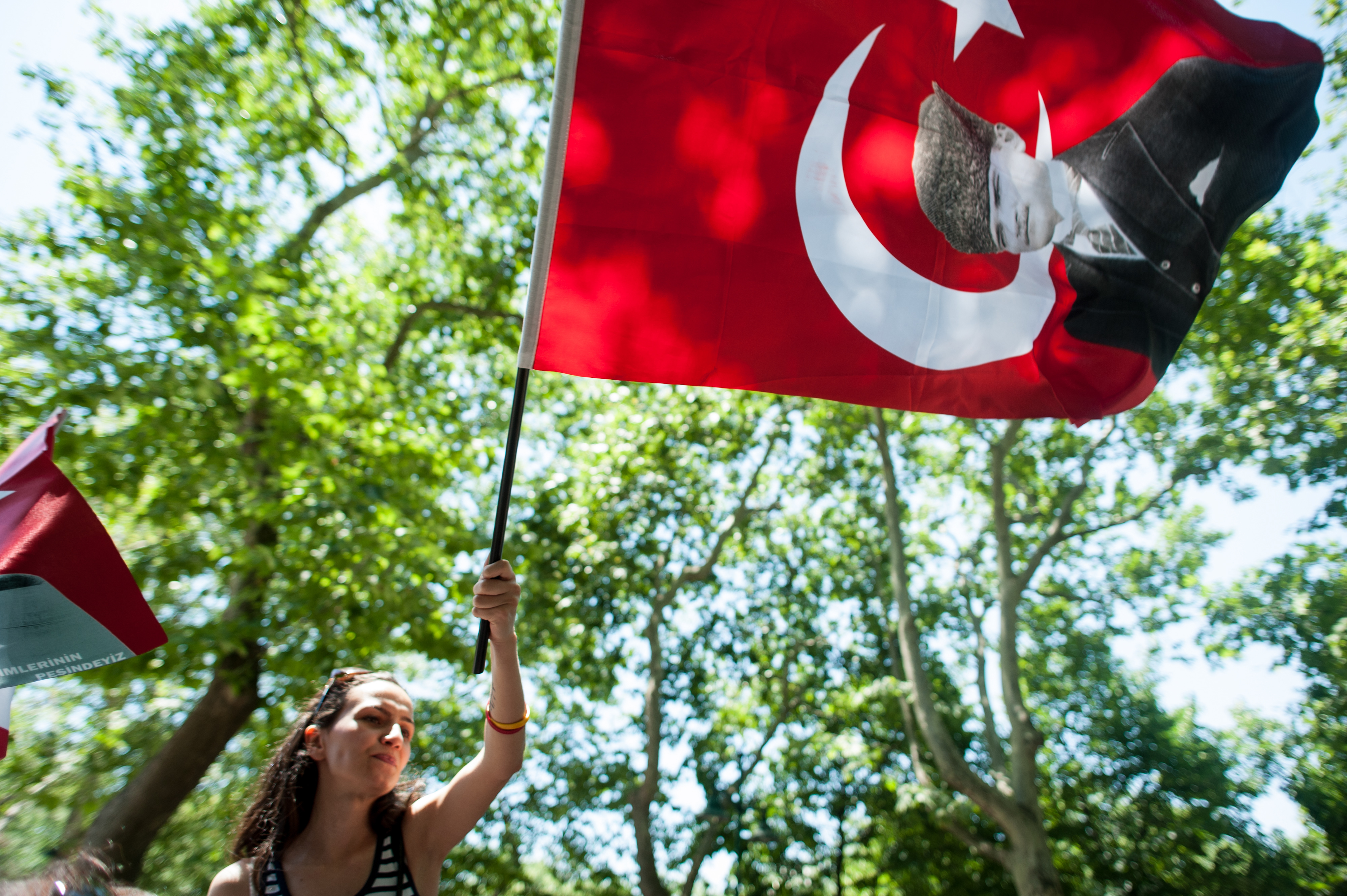 Peaceful daytime demonstrations in Taksim park. Events of June 3, 2013.